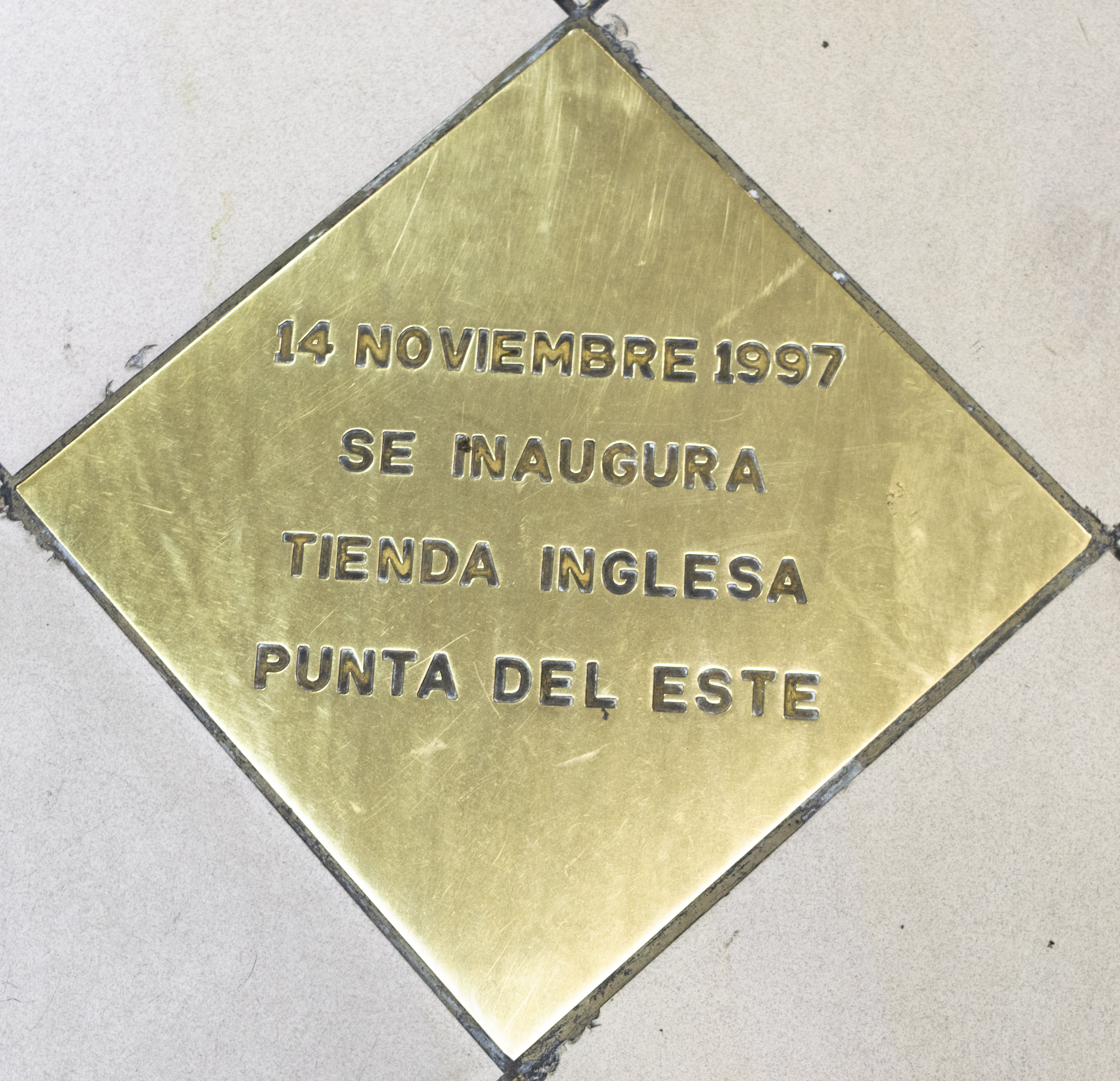 Plaque conmemoran opening of Tienda Inglesa's store, Punta Shopping, shopping mall of Punta del Este, Uruguay